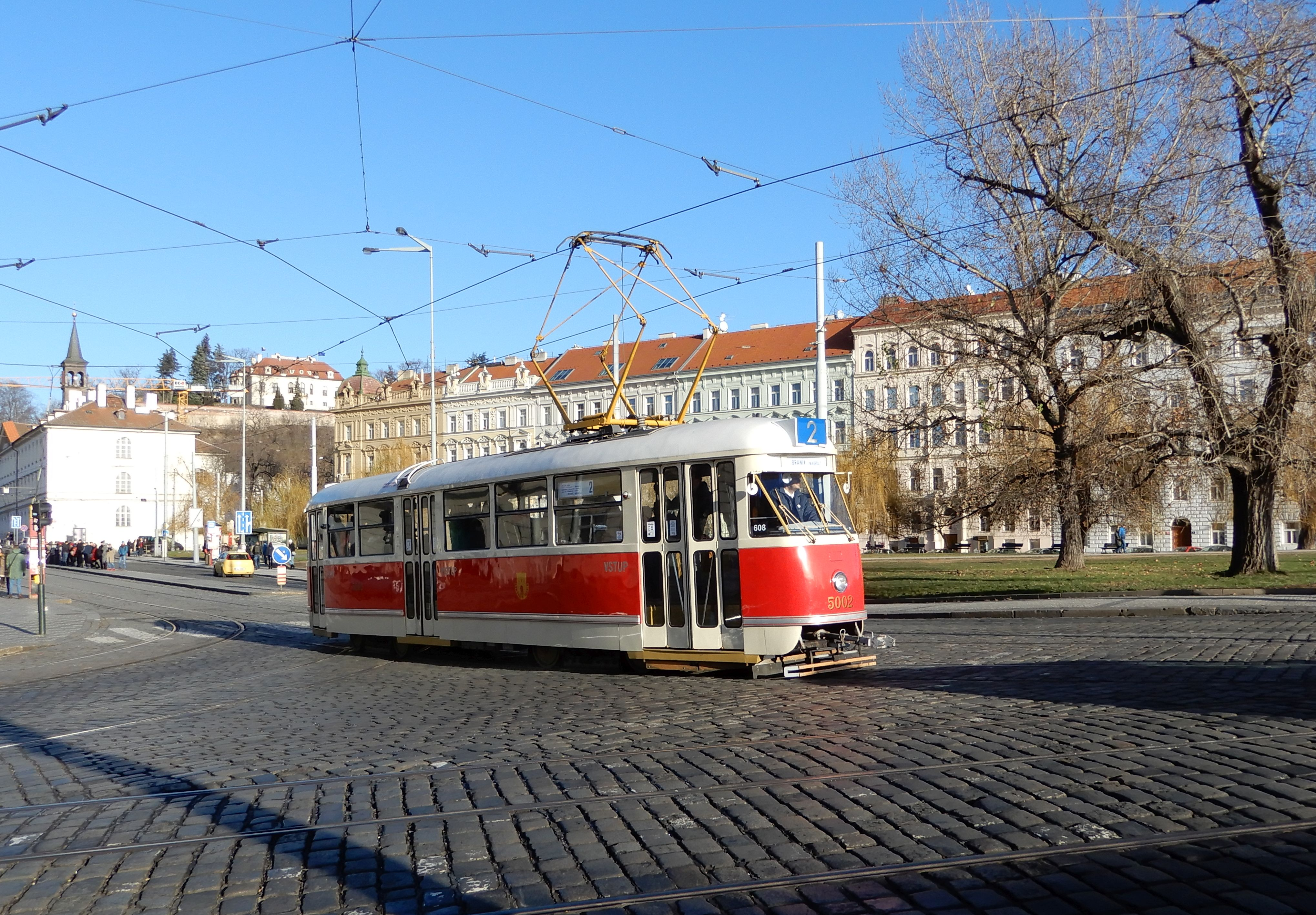 Tram Tatra 5002 in daily traffic of line No 2, Prague 1, tram loop Klárov (Malostranská)